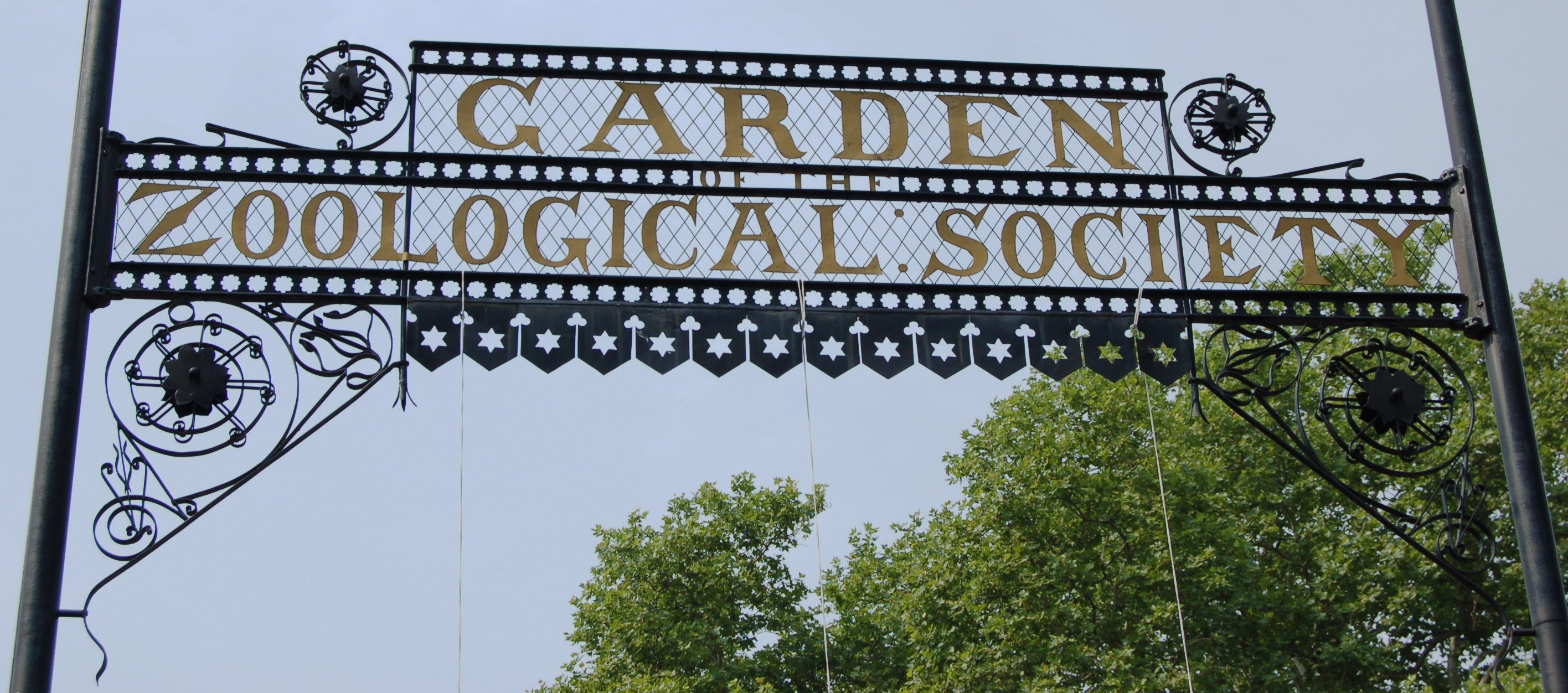 Cropped version of :Image:Philadelphia Zoo Welcome Gate 2832px.jpg